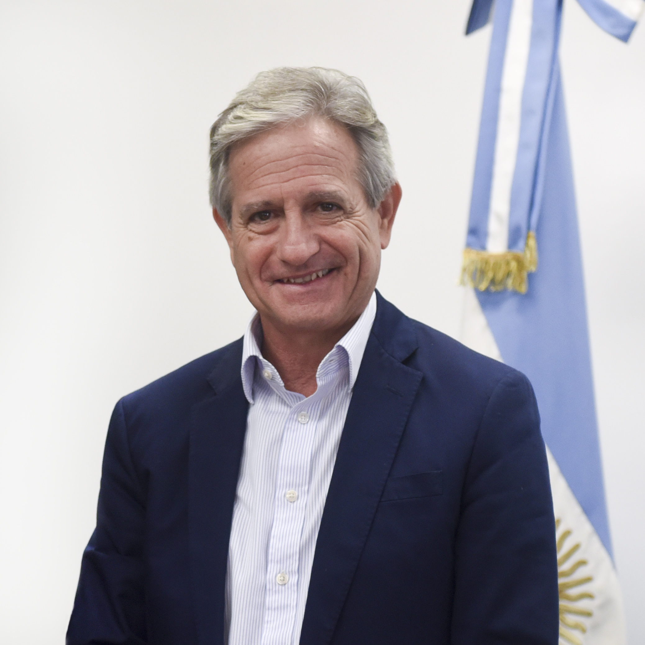 This is a picture of Andres Ibarra, authorized by himself